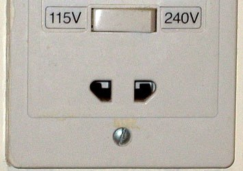 UK shaver socket